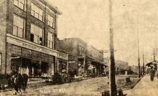 Photographic view of Lower Main Street, Chatham, Pittsylvania County, Virginia, in 1911. Whitehead & Yeatts, visible in the photograph, was the largest store in Chatham at the time. Visible next door is the office of the Star-Tribune newspaper.